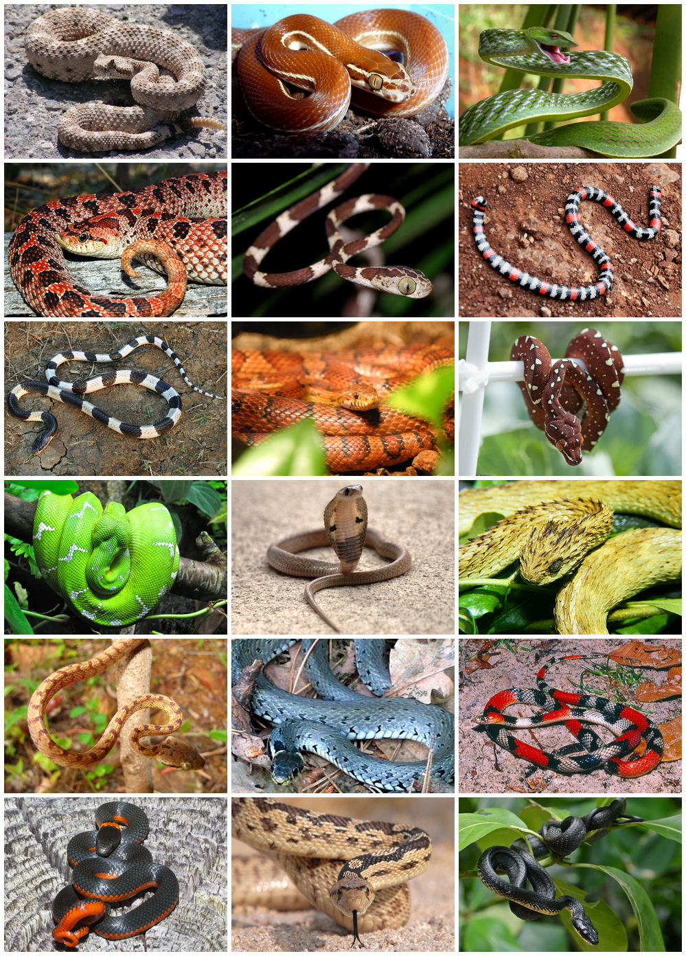 Snakes Diversity